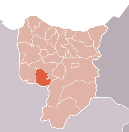 Azlaf